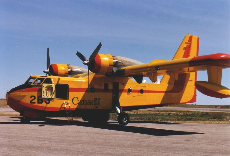 A Canadair CL-215 water bomber, number 263 in Kenora, Ontario in May 1987.